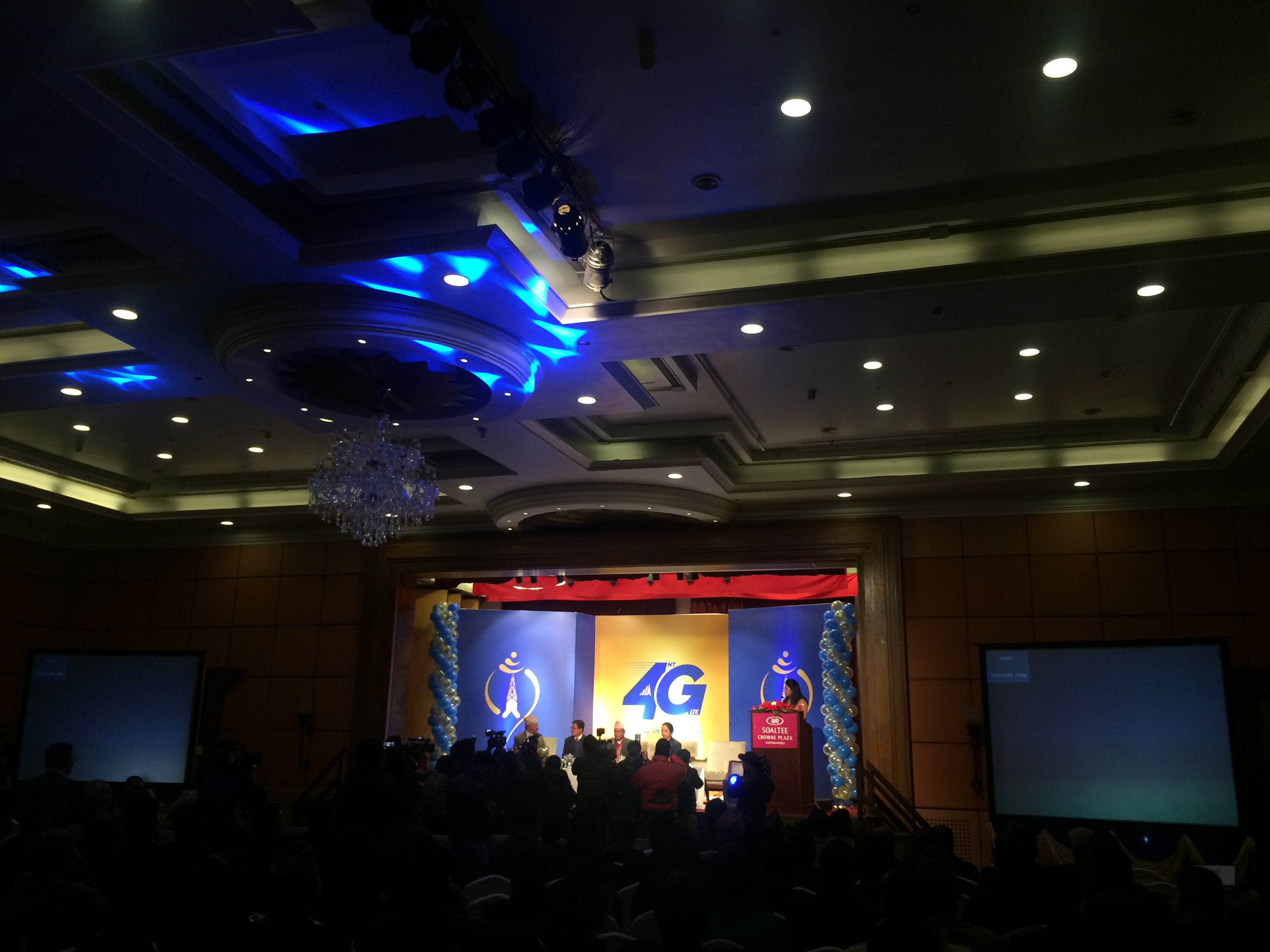 4G launch